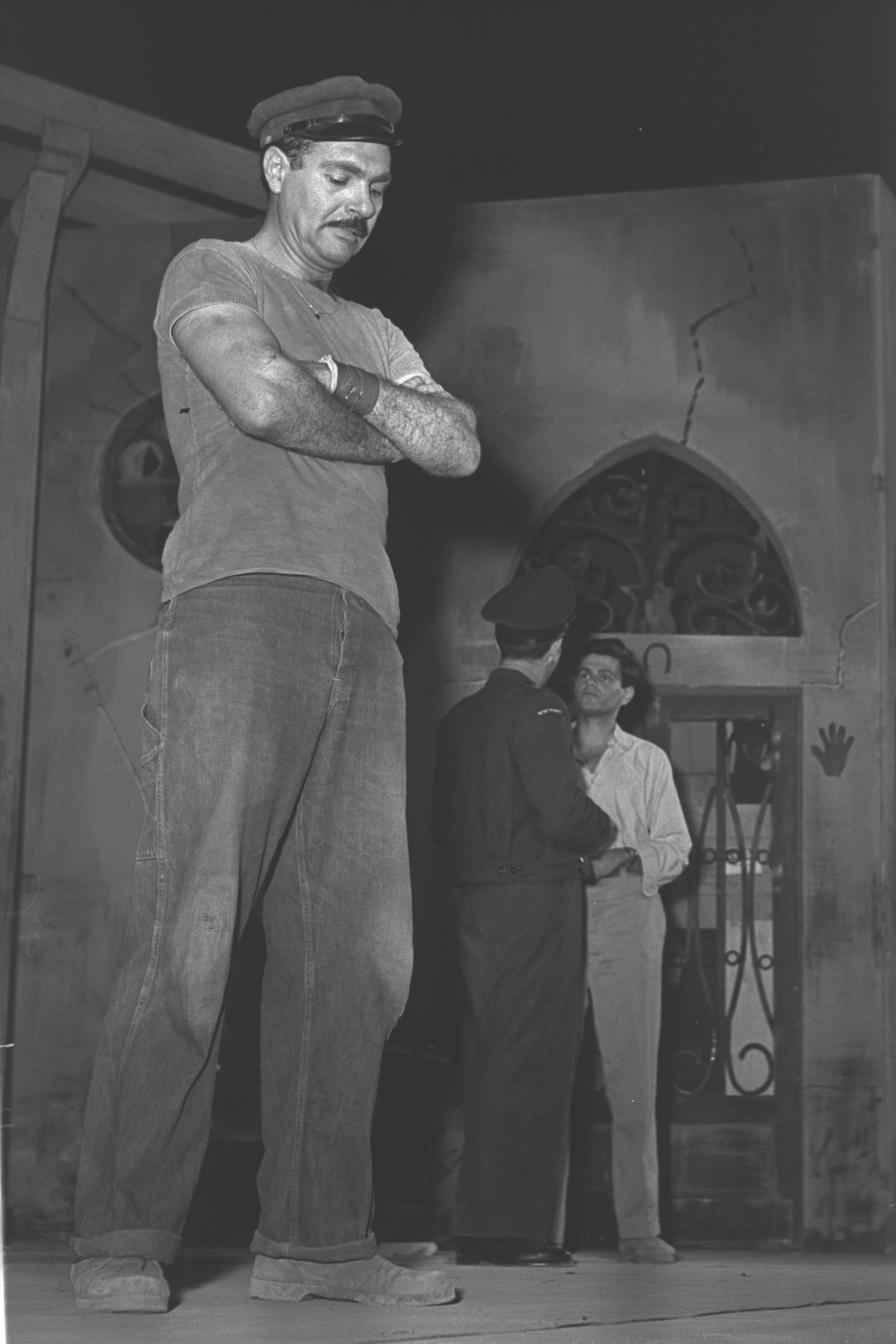 SCENE OF MOSSINSON'S PLAY "CASABLAN", YOSEF YADIN IN TITLEROLE IN FOREGROUND.